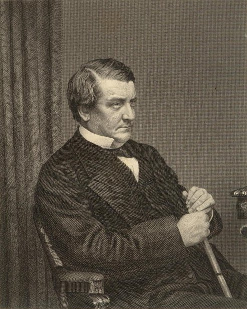 Image cropped, rotated, and scaled using The GIMP.